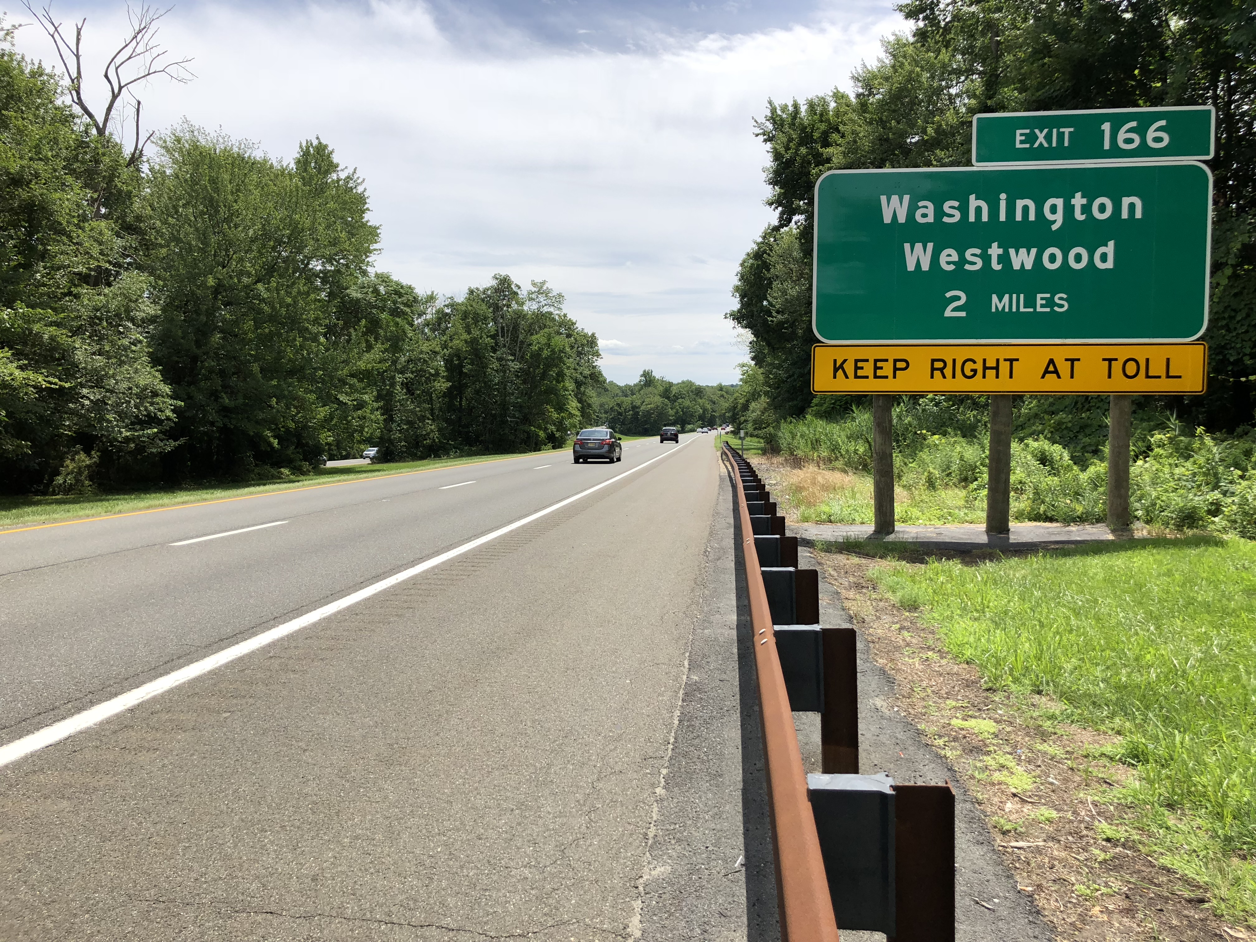 View south along New Jersey State Route 444 (Garden State Parkway) north of Exit 166 (Washington, Westwood) in Hillsdale, Bergen County, New Jersey